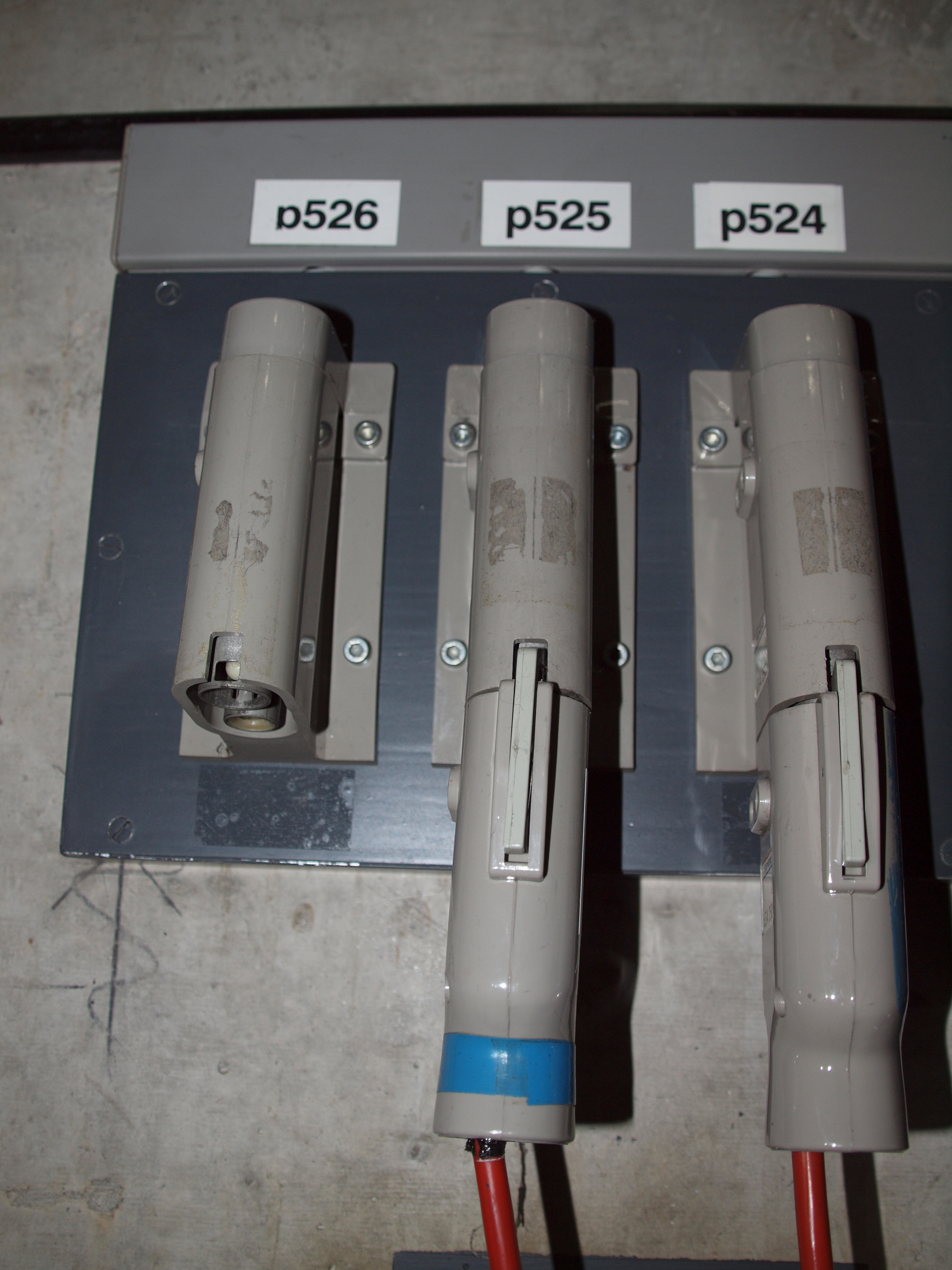 Wallsocket of the Plugsystem called Eberl (german norm DIN 56905)